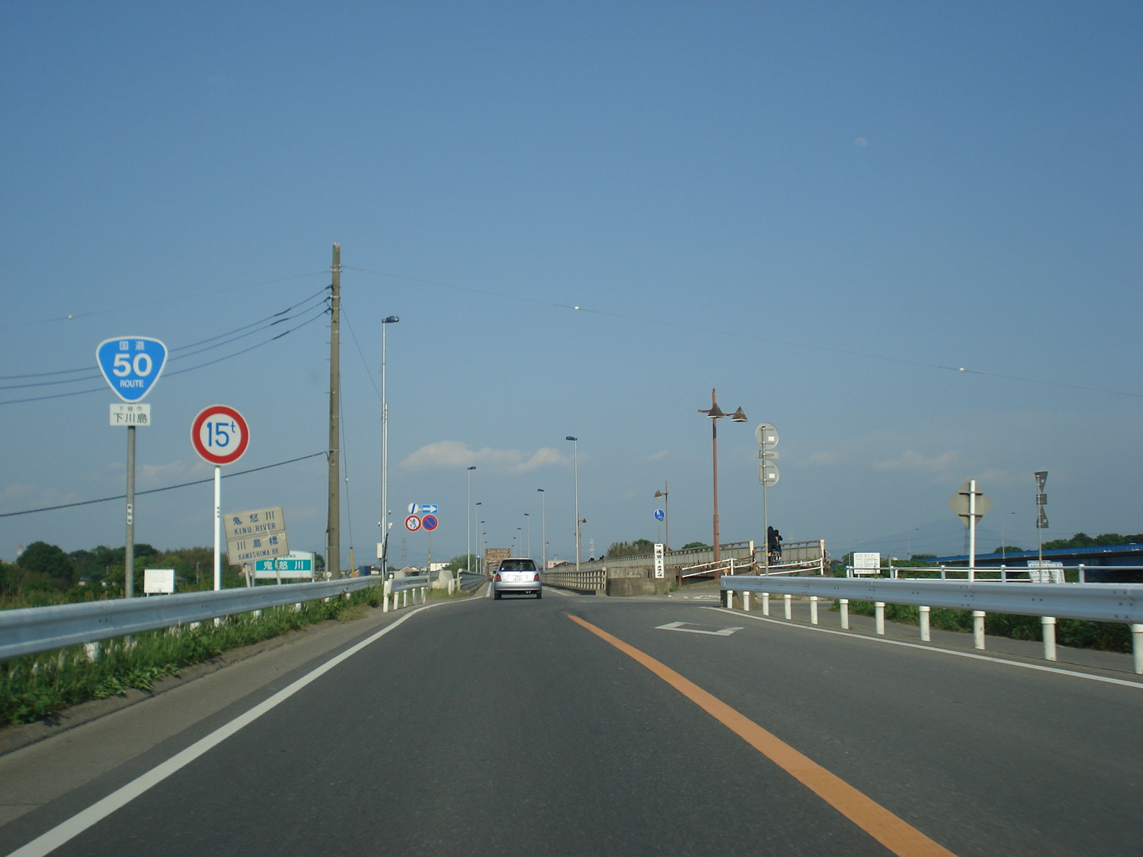 Japan National Route 50